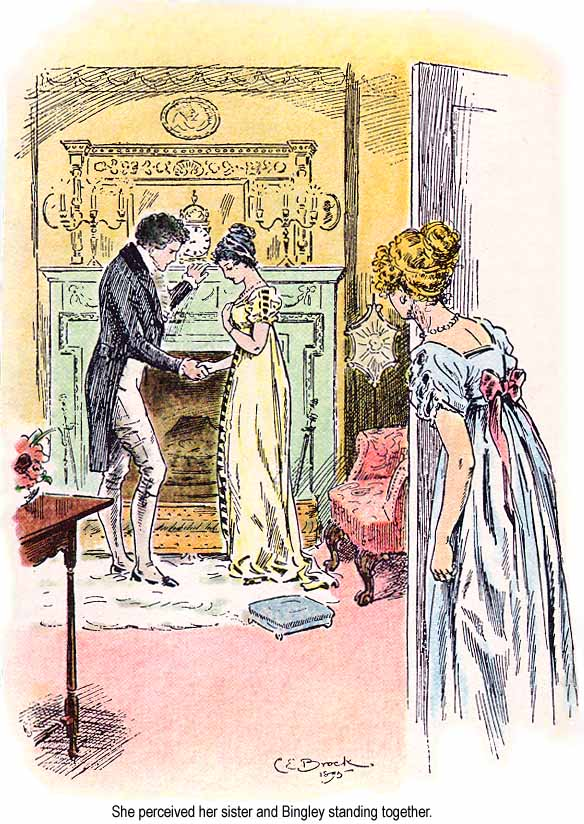 C. E. Brock illustration for the 1895 edition of Jane Austen's novel Pride and Prejudice (Chapter 55)